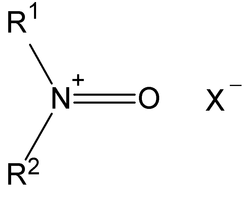 Comments High-resolution black/white .PNG made with ChemSketch and Photoshop — see WikiProject Chemistry - structure drawing for detailed instructions. Please drop me a note if you need the source file. Category:Chemical structures (Original text: Chemical structure of N-Oxoammonium salt)